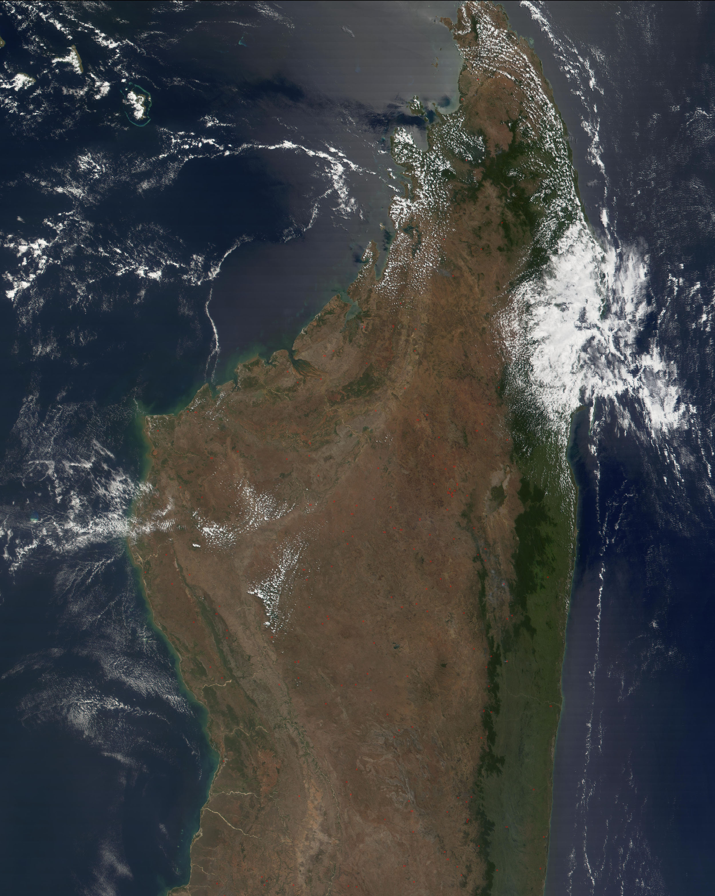 Satellite image of North Madagascar from Terra / MODIS.